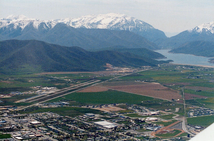 Heber Valley, with Deer Creek Reservoir in the background.